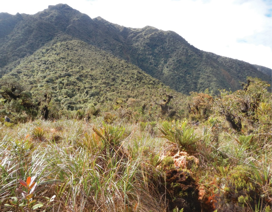 On Pampa of Quebrada Yanachaga at an altitude of 3000 m. Photo by E. Lehr.